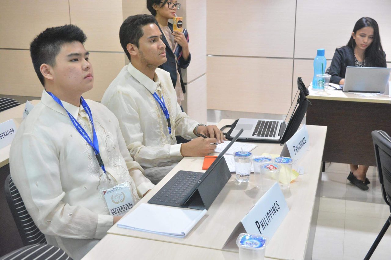 Delegates at Jakarta MUN (JMUN) in Jakarta, Indonesia